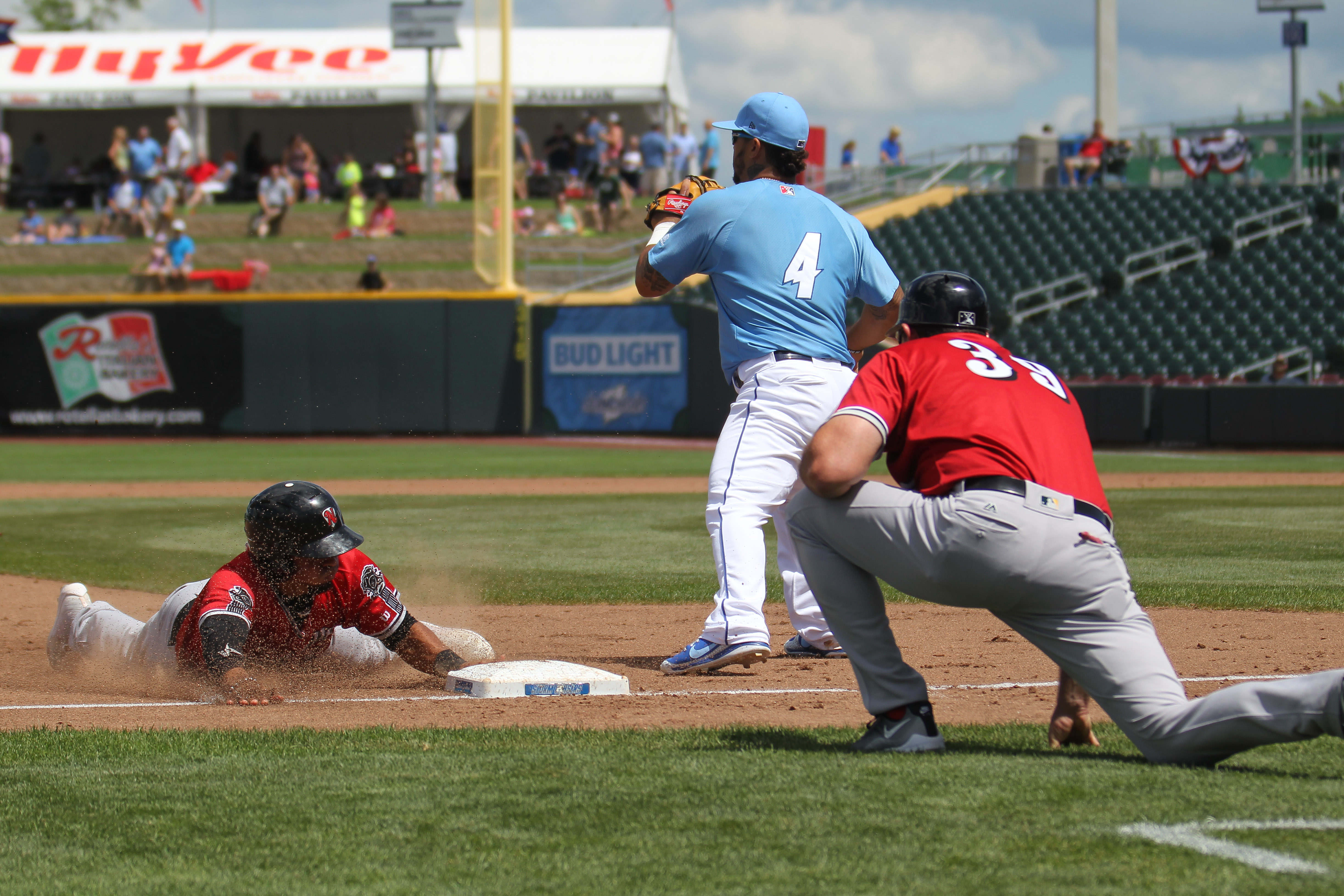 Melvin Mercedes (Nashville) slides into third base as his manager, Fran Riordan, looks on. Minda Haas Kuhlmann | 2018 USAGE INSTRUCTIONS: You are welcome to share or publish to your own site or social media account, but you MUST credit me, Minda Haas Kuhlmann. Twitter: @minda33. Instagram: minda.haas